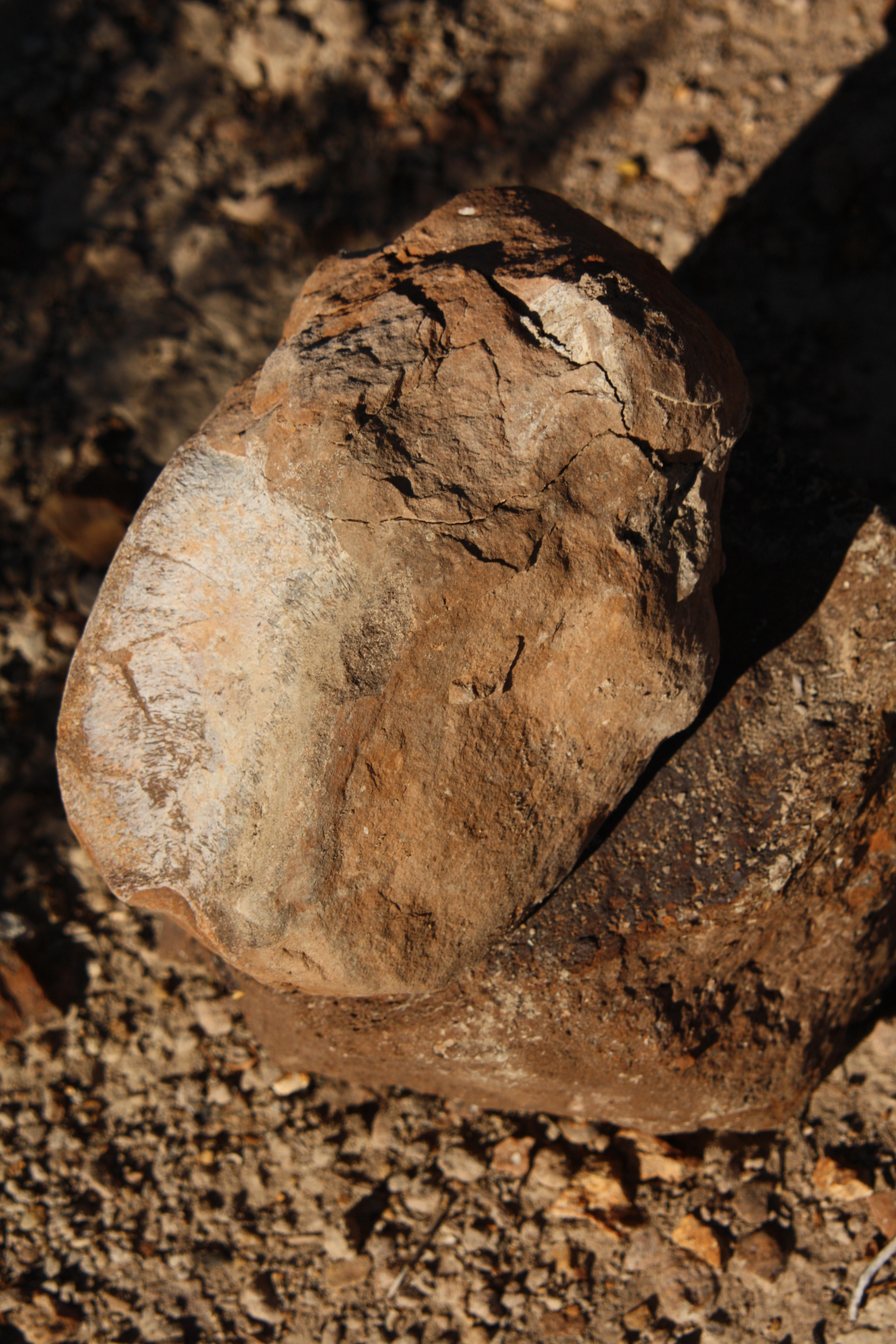 Duckbill dinosaur (Hadrosauridae) caudal vertebra, Late Cretaceous (Campanian) aged Aguja Formation, Big Bend National Park, Texas, USA. Photograph by Nick Longrich.